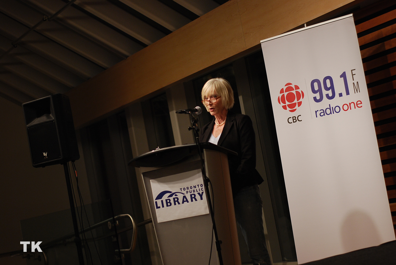 Actress Janet-Laine Green, reading an excerpt from "Good To A Fault" by Marina Endicott.